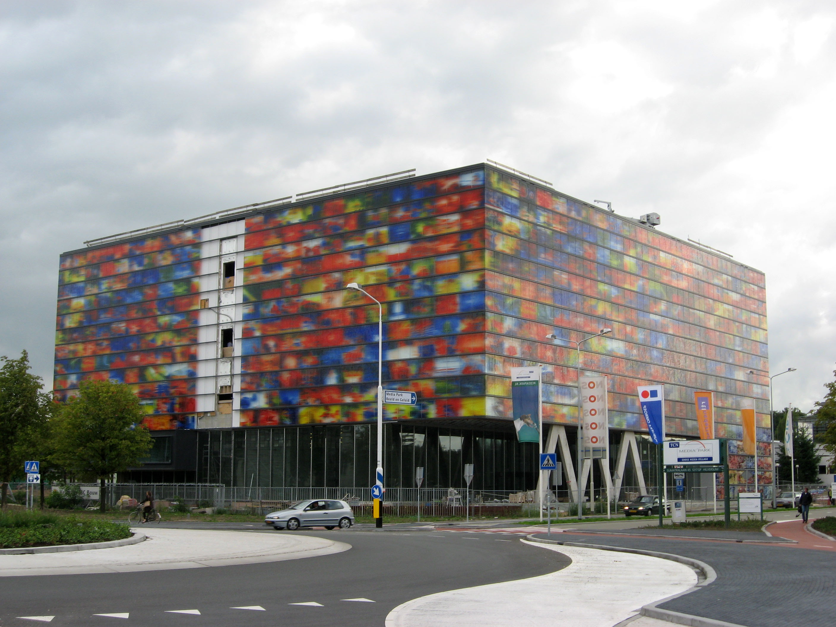 The new 'Beeld en Geluid' Experience at the Media park in Hilversum, The Netherlands.